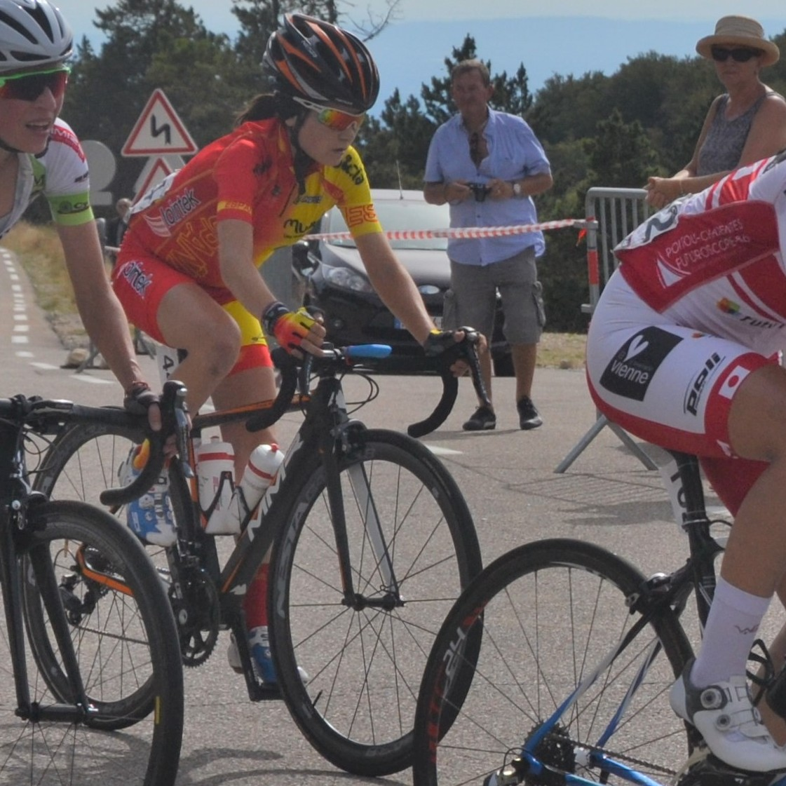 left to right:Eri Yonamine, Eider Merino Kortazar, Flávia Oliveira